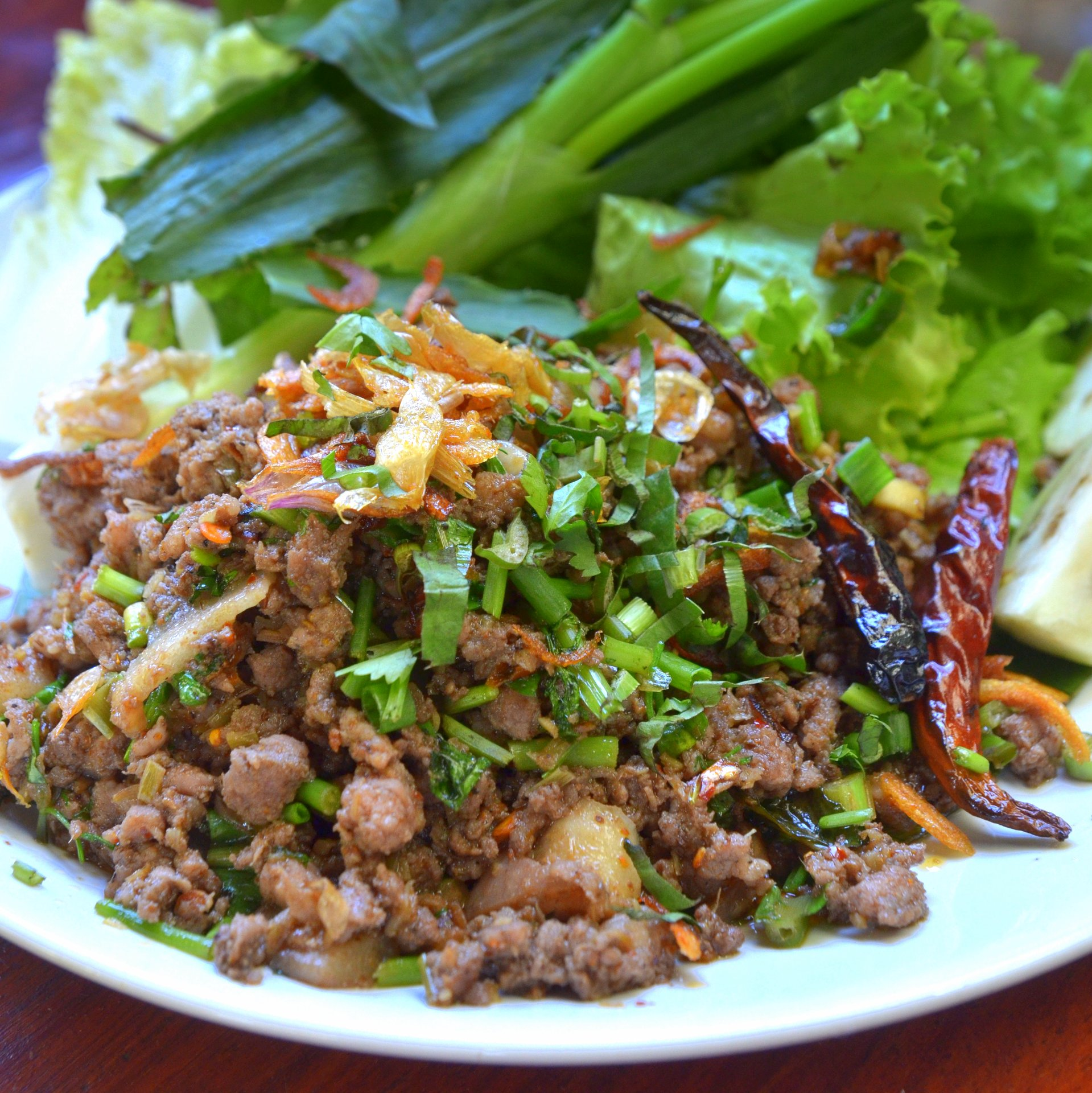 Lap khua mu (Thai script: ลาบคั่วหมู) is a northern Thai dish. The chilli paste with which this dish is made is very different from the northeastern Thai style lap, and contains numerous dried spices such as cumin, cloves and cinnamon in addition to ground dried chillies.